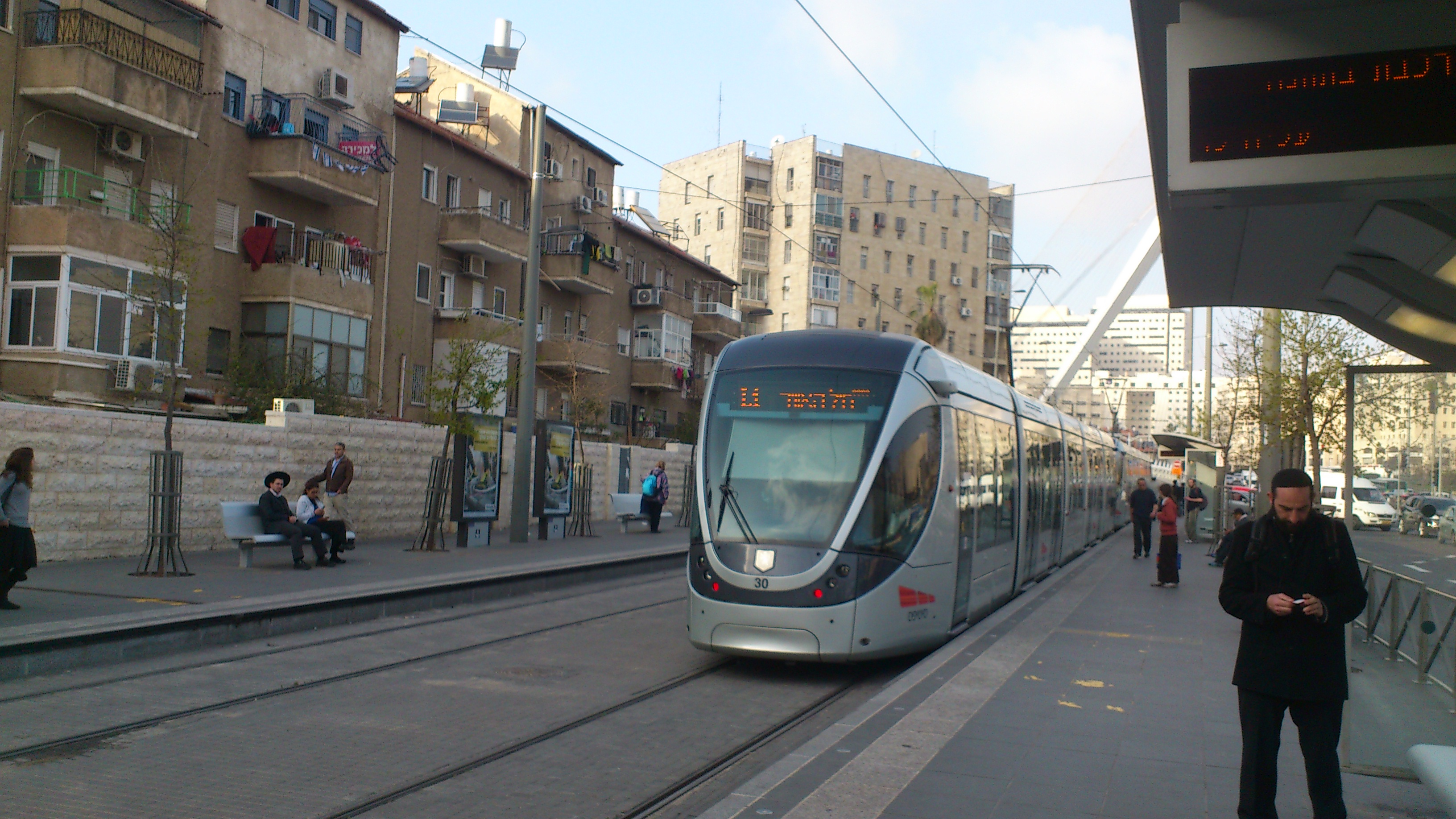 Herzl Boulevard, Jerusalem